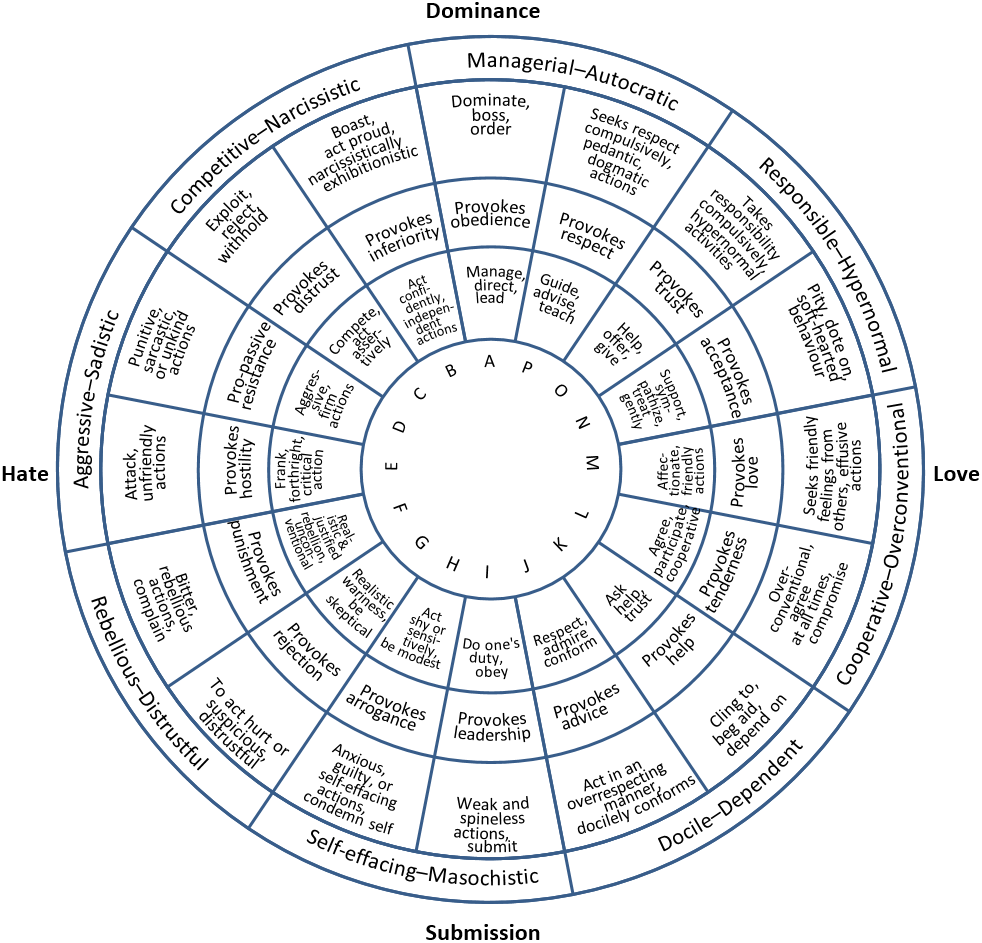 From Timothy Leary (1957): Interpersonal Diagnosis of Personality, p. 65: Classification of Interpersonal Behavior into Sixteen Mechanisms or Reflexes. Each of the sixteen interpersonal variables is illustrated by sample behaviors. The inner circle presents illustrations of adaptive reflexes, e g., for the variable A, manage. The center ring indicates the type of behavior that this interpersonal reflex tends to "pull" from the other one. Thus we see that the person who uses the reflex A tends to provoke others to obedience, etc. These findings involve two-way interpersonal phenomena (what the subject does and what the "Other" does back) and are therefore less reliable than the other interpersonal codes presented in this figure. The next circle illustrates extreme or rigid reflexes, e.g., dominates. The perimeter of the circle is divided into eight general categories employed in interpersonal diagnosis. Each category has a moderate (adaptive) and an extreme (pathological) intensity, e.g., Managerial-Autocratic.